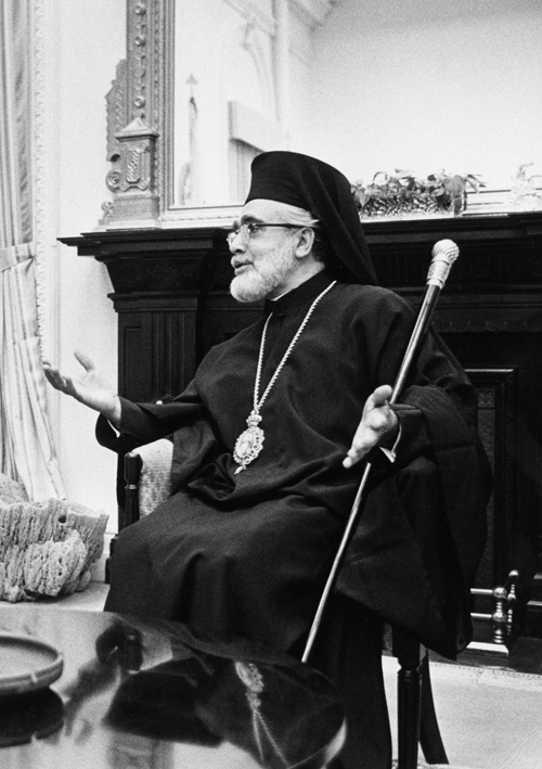 Archbishop Iakovos, photographed at the White House during a meeting with Spiro Agnew